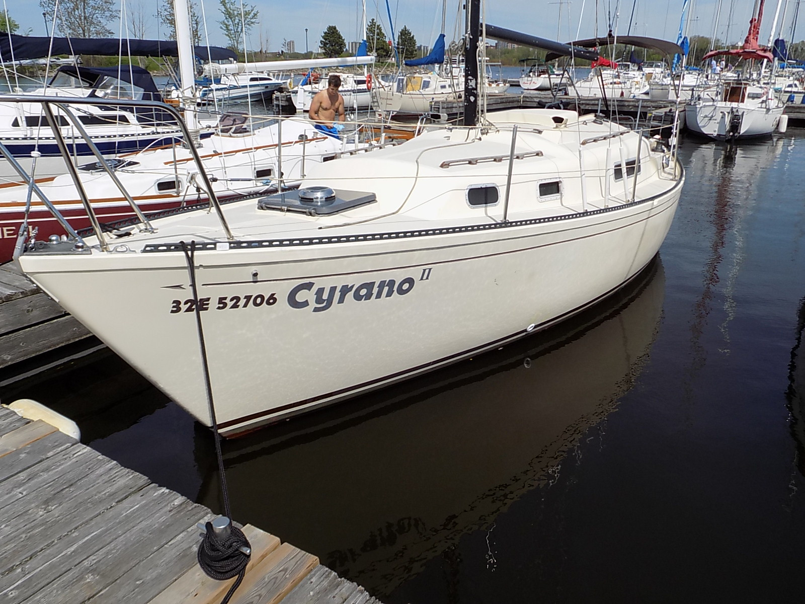 An Aloha 28 sailboat named Cyrano II.